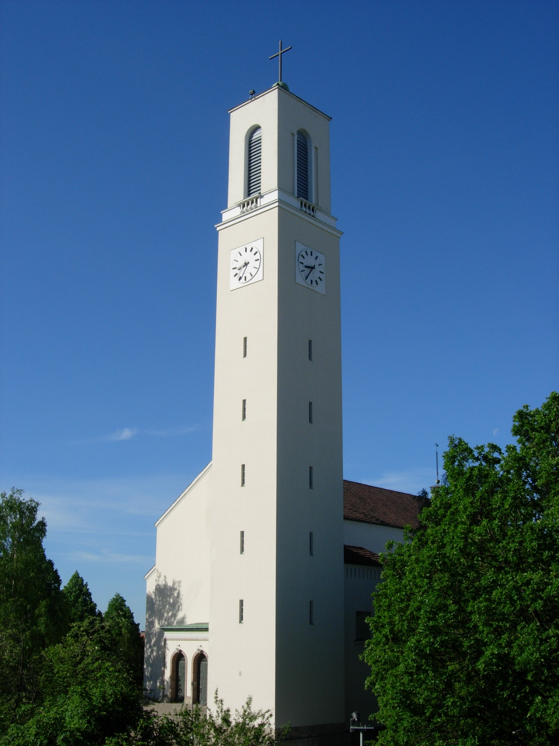 Martinkirkko seen from north